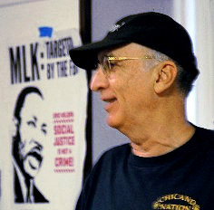 Carlos Montes speaking at the San José Peace and Justice Center, Feb. 19, 2012, San José, CA